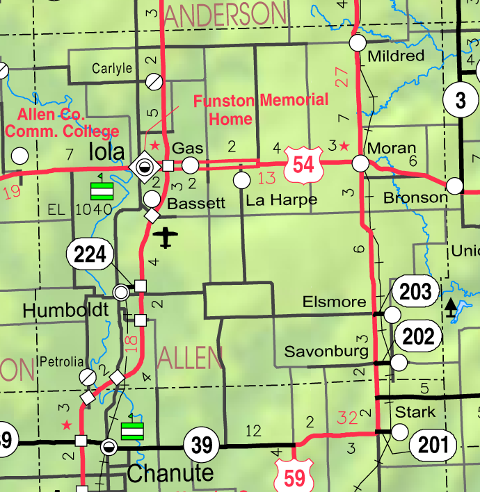 This map of Allen County, Kansas, USA, is copied at a resolution of 300 pixels/inch from the original PDF file.